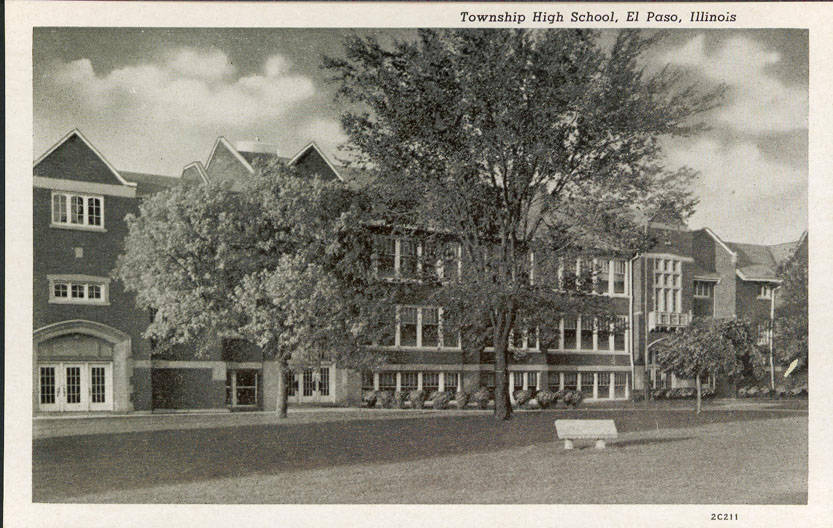 view of the El Paso Township High School